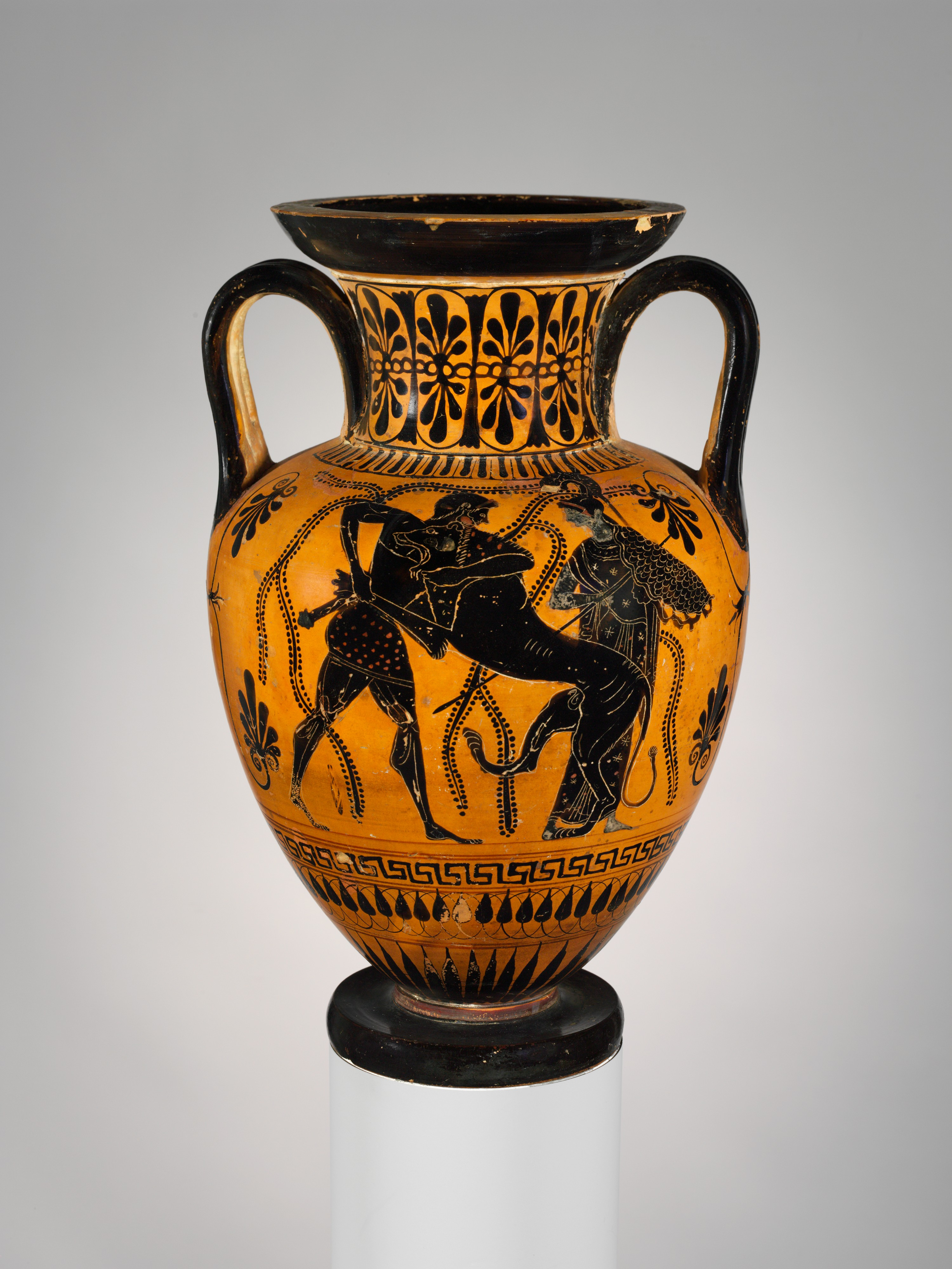 Greek, Attic; Neck-amphora; Vases